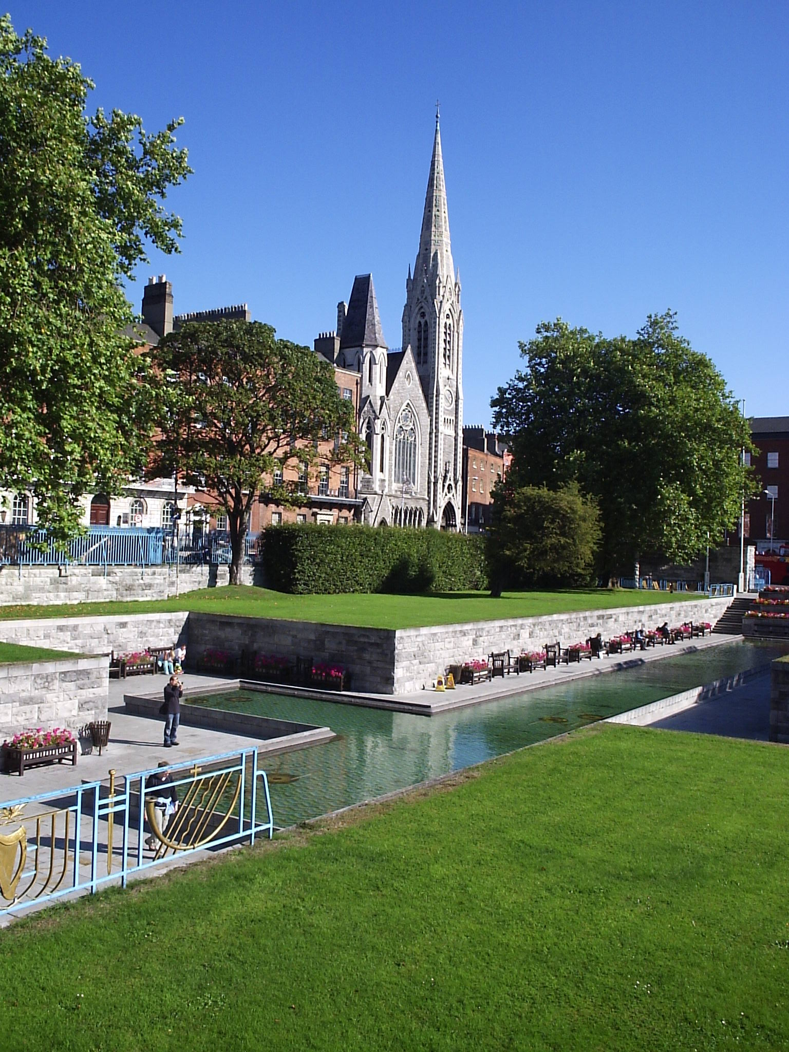 Garden of Remembrance in Dublin